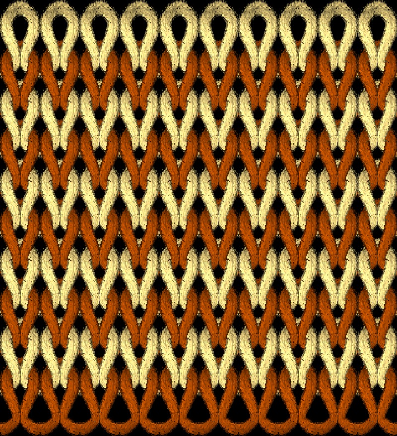 حسام هطلاني